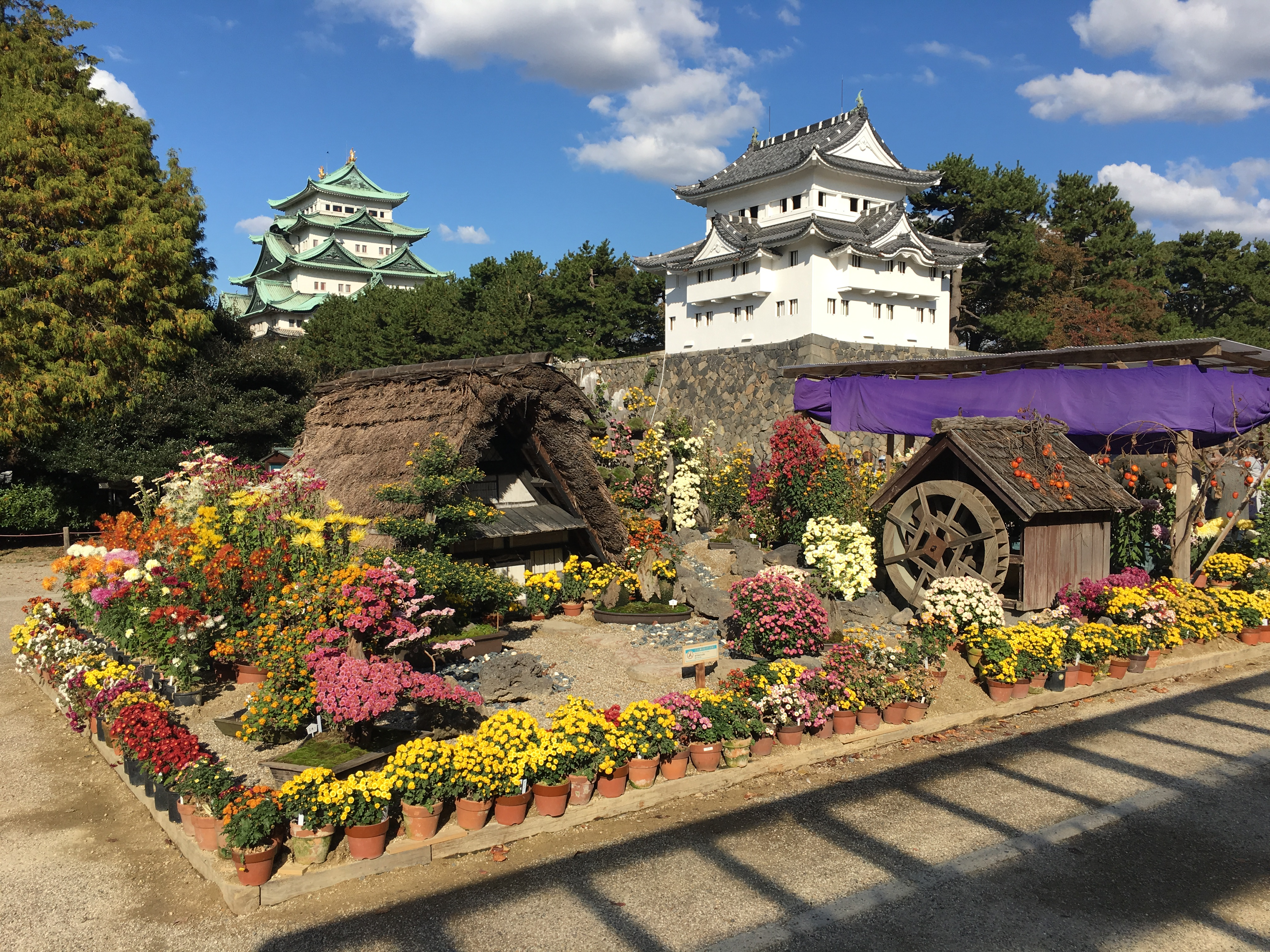 71st Nagoya Castle Chrysanthemum Exhibition in November 2018.